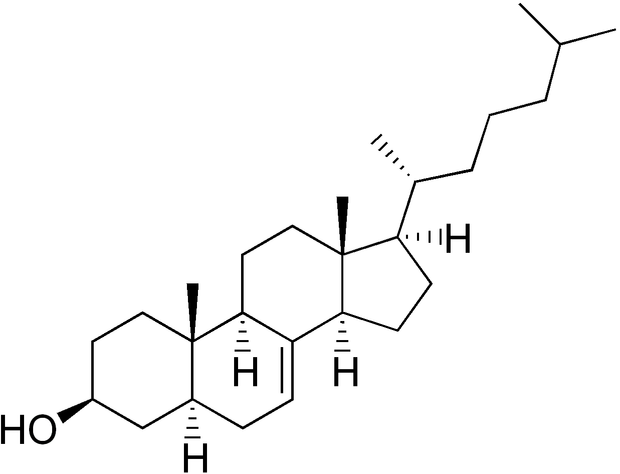 chemical structure of lathosterol